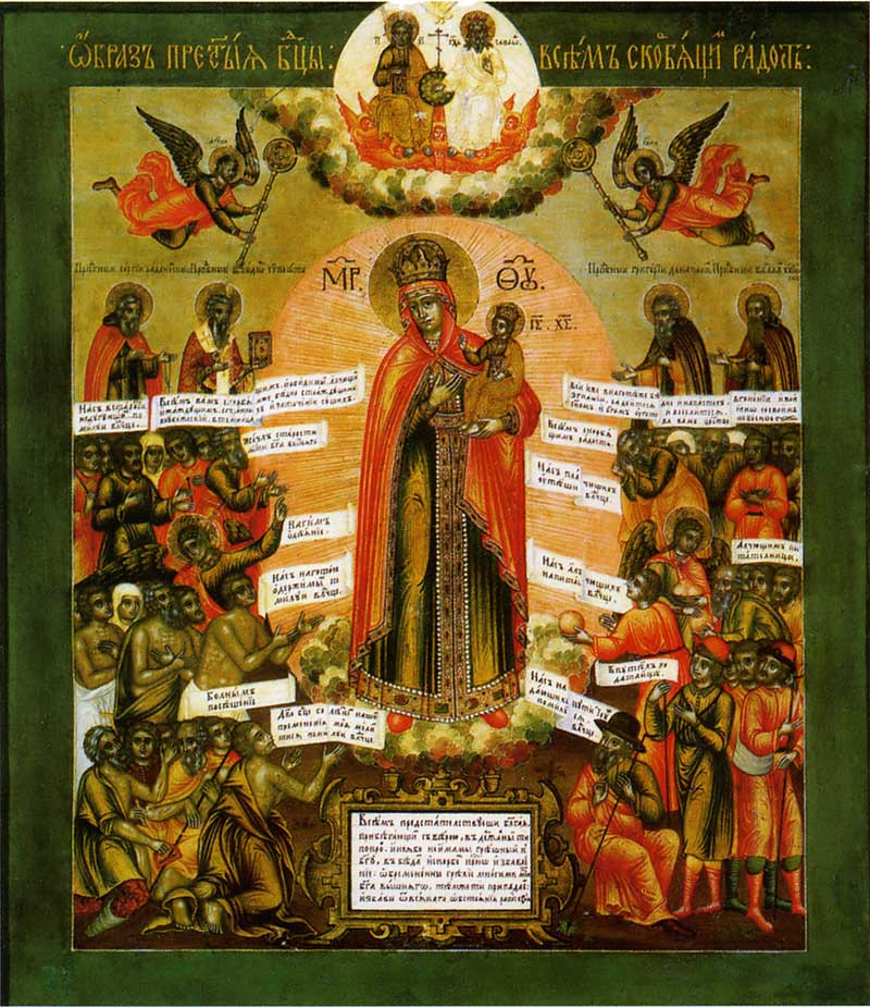 Our lady of all sorrowfull